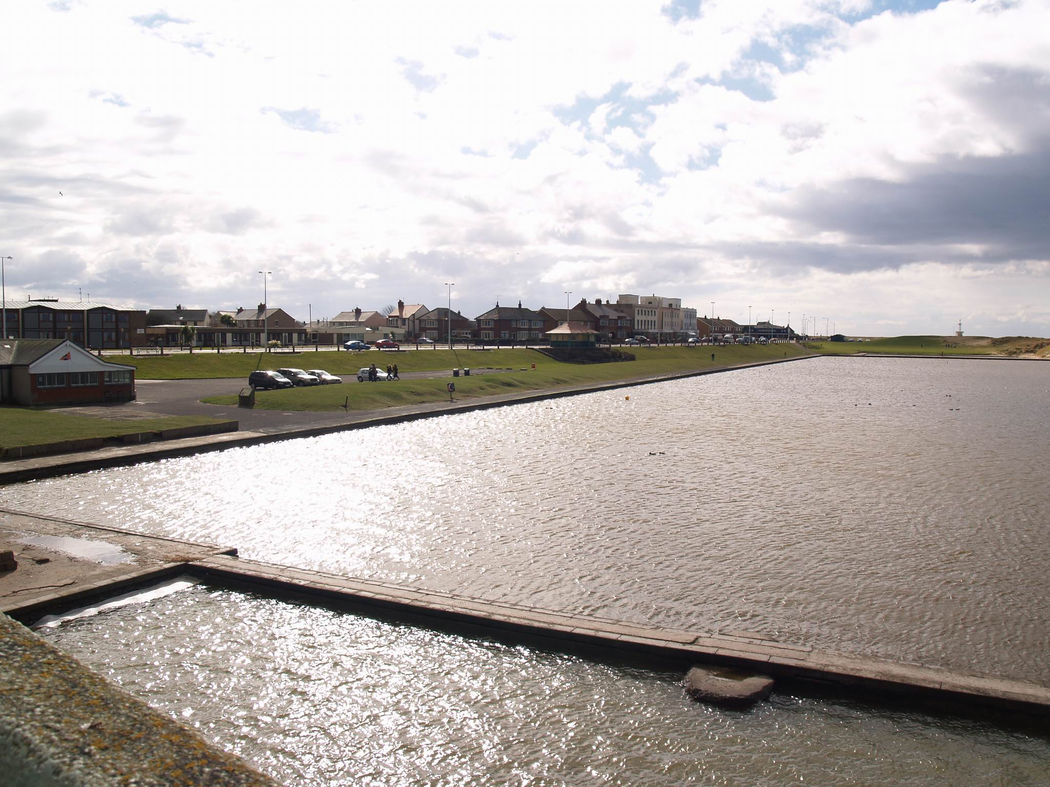 Fleetwood-Mar 2008-Model Yacht Pond (1932)